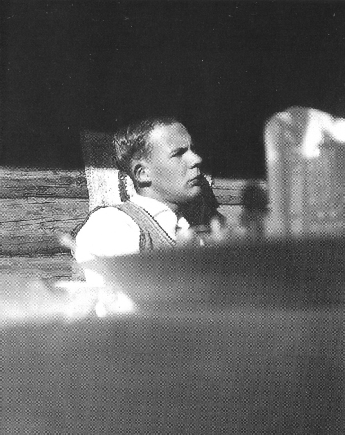 Photograph of the Finnish theatre manager Mauno Manninen (1915–1969).